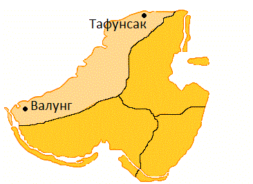 Map of Tufunsak Minicipality, Kosrae, Micronesia in Macedonian.